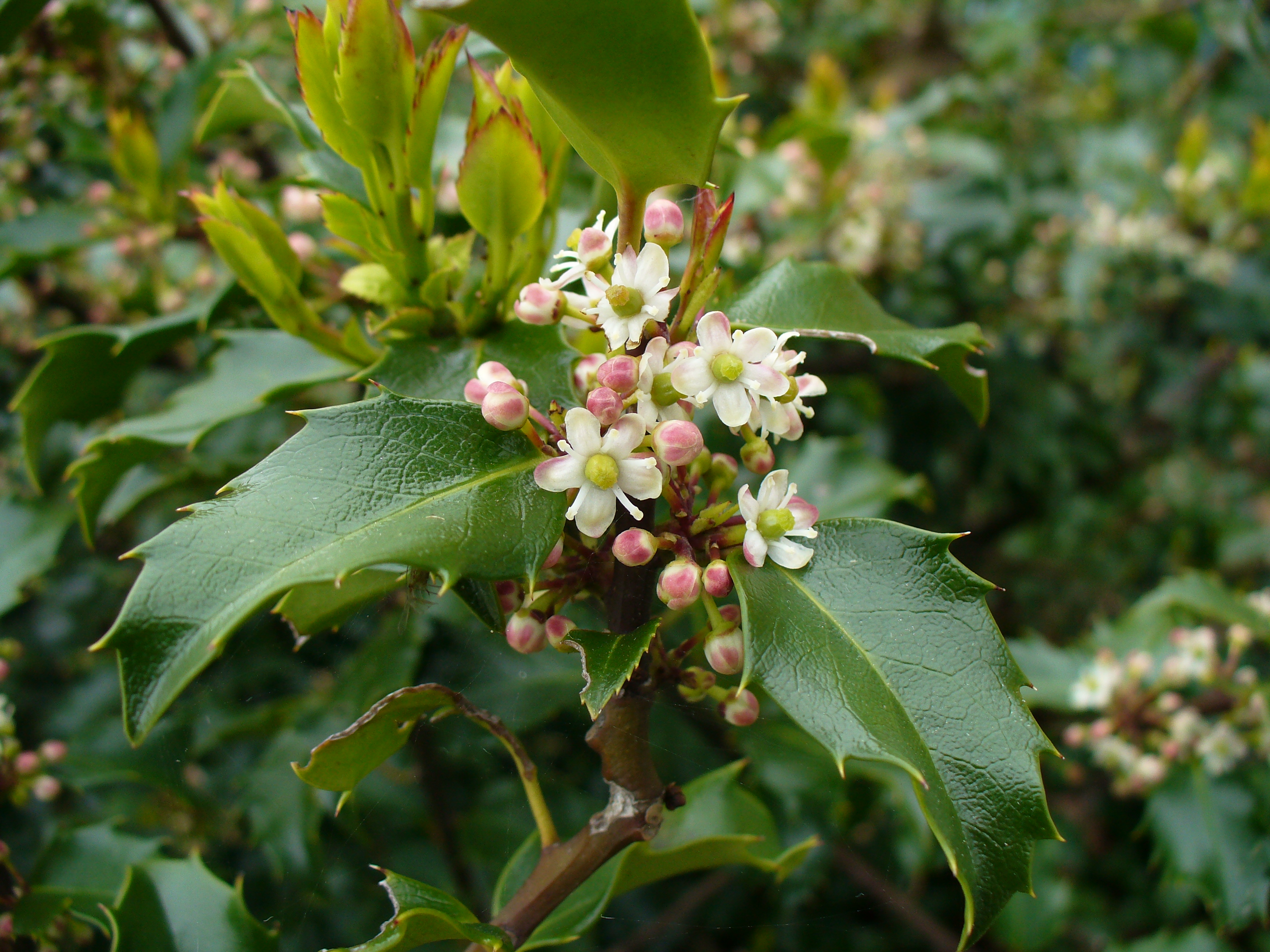 I am the originator of this photo. I hold the copyright. I release it to the public domain. This photo depicts flowers of Ilex × meserveae.